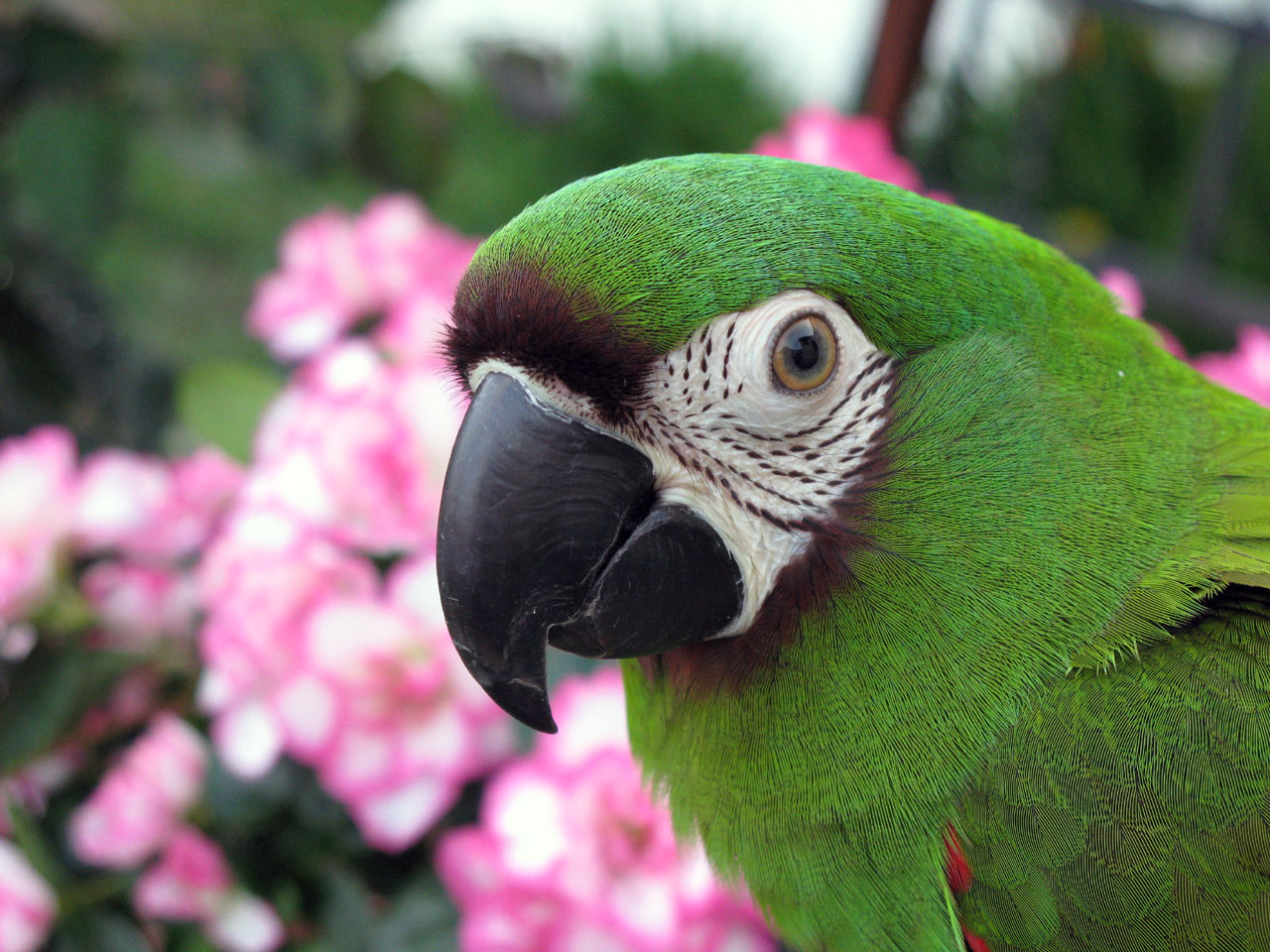 Diego, pet Chestnut-Fronted Macaw (also known as Severe Macaw), Los Angeles, California, USA.